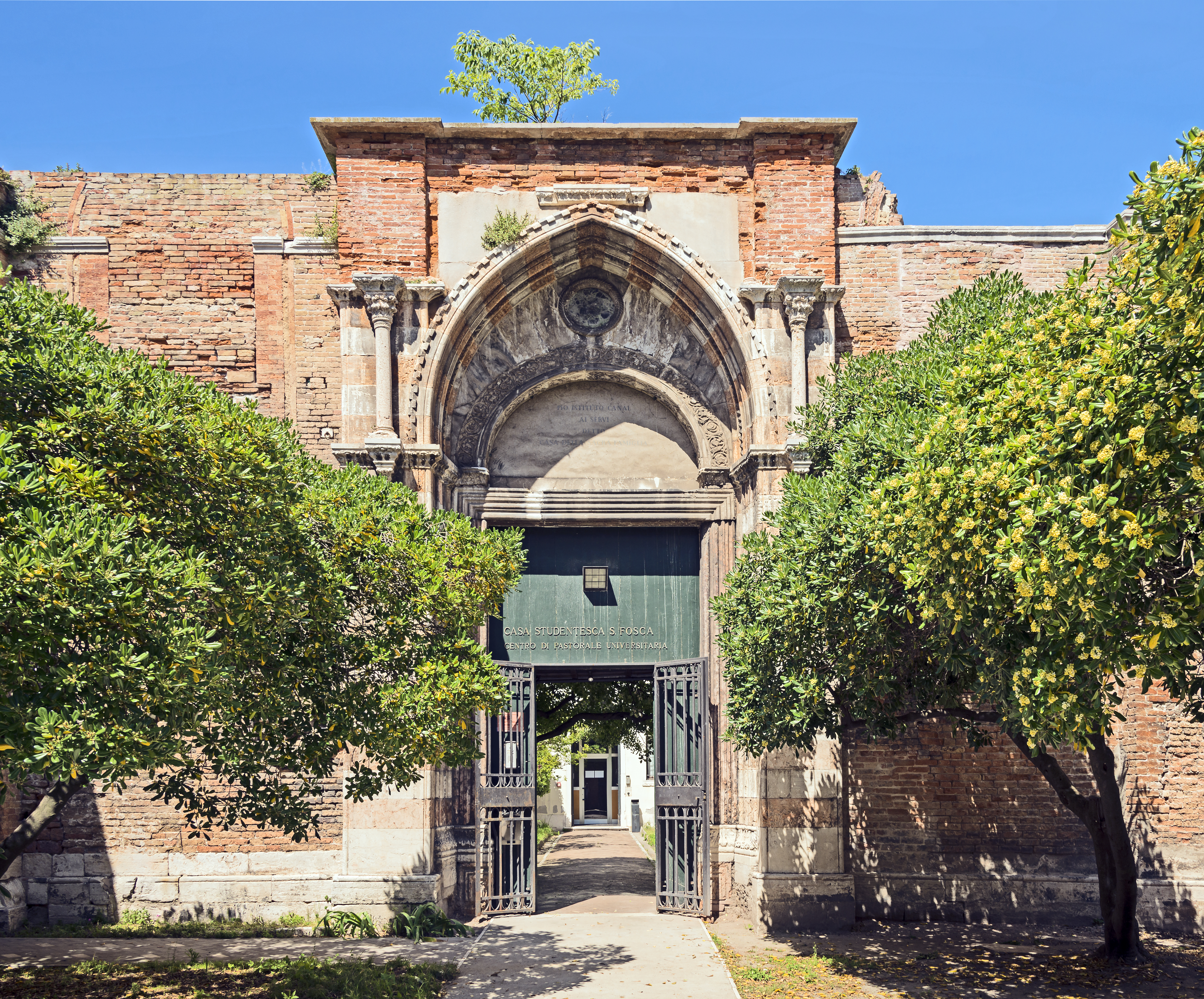 Church Santa Maria dei Servi in Venice. Fragments of the facade and porch.